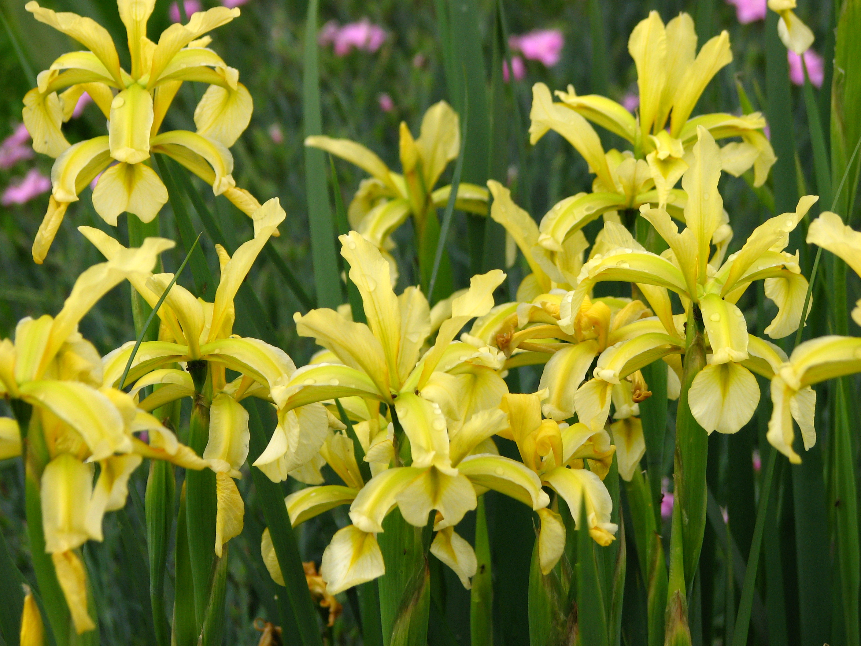 Iris halophila. From the collection of the Botanical Garden of Moscow State University (main area on the Sparrow Hills).